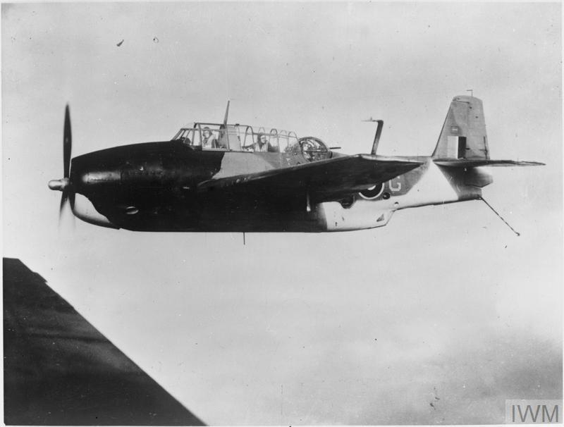 A Grumman Avenger G of 846 Squadron, Fleet Air Arm returning to HMS TRUMPETER from the strike. (Empire No 62556/164072, Air Frame No FN 871). The successful strike against enemy shipping off the coast of Norway was carried out by aircraft from the escort carriers TRUMPETER and FENCER. The members of crew can be clearly seen in the cockpit.